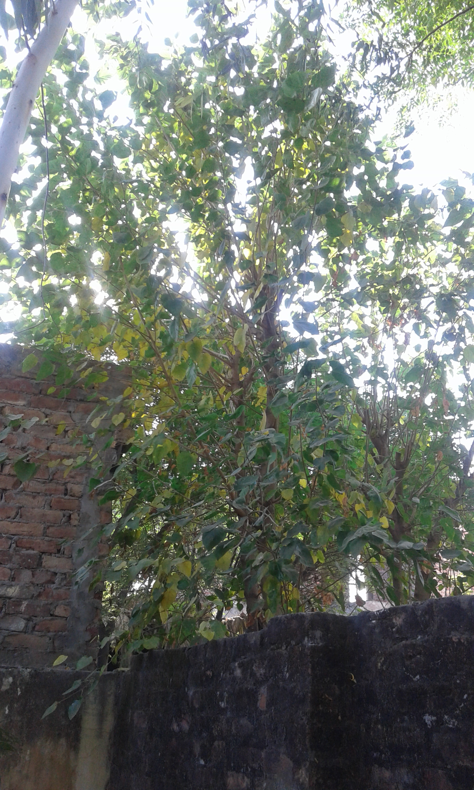 ਮੋਰੁਸ ਨਿਗਰਾ (ਤੂਤ)